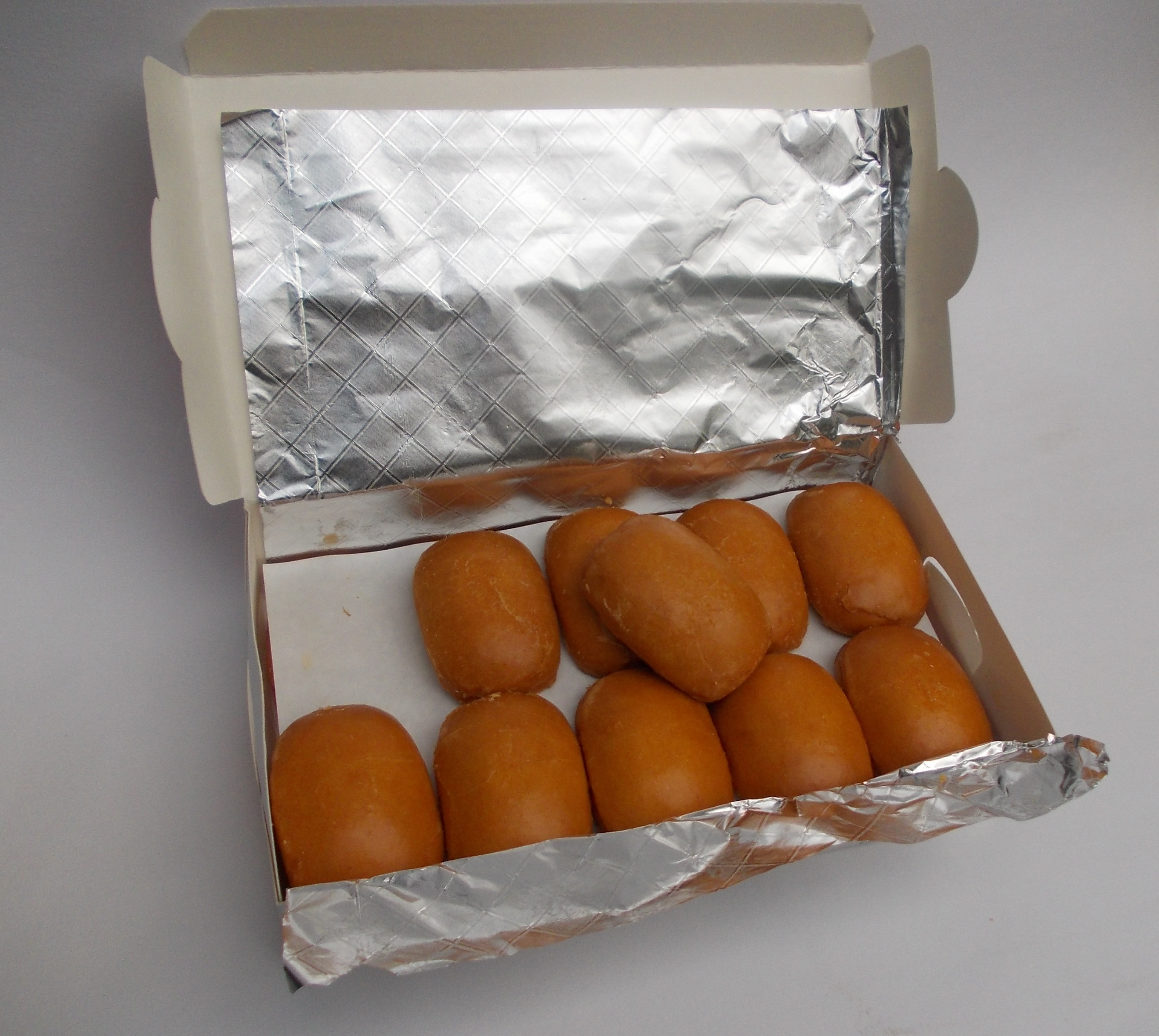 Chamonix orange de LU (Lefèvre-Utile) (small cakes with orange puree filling)